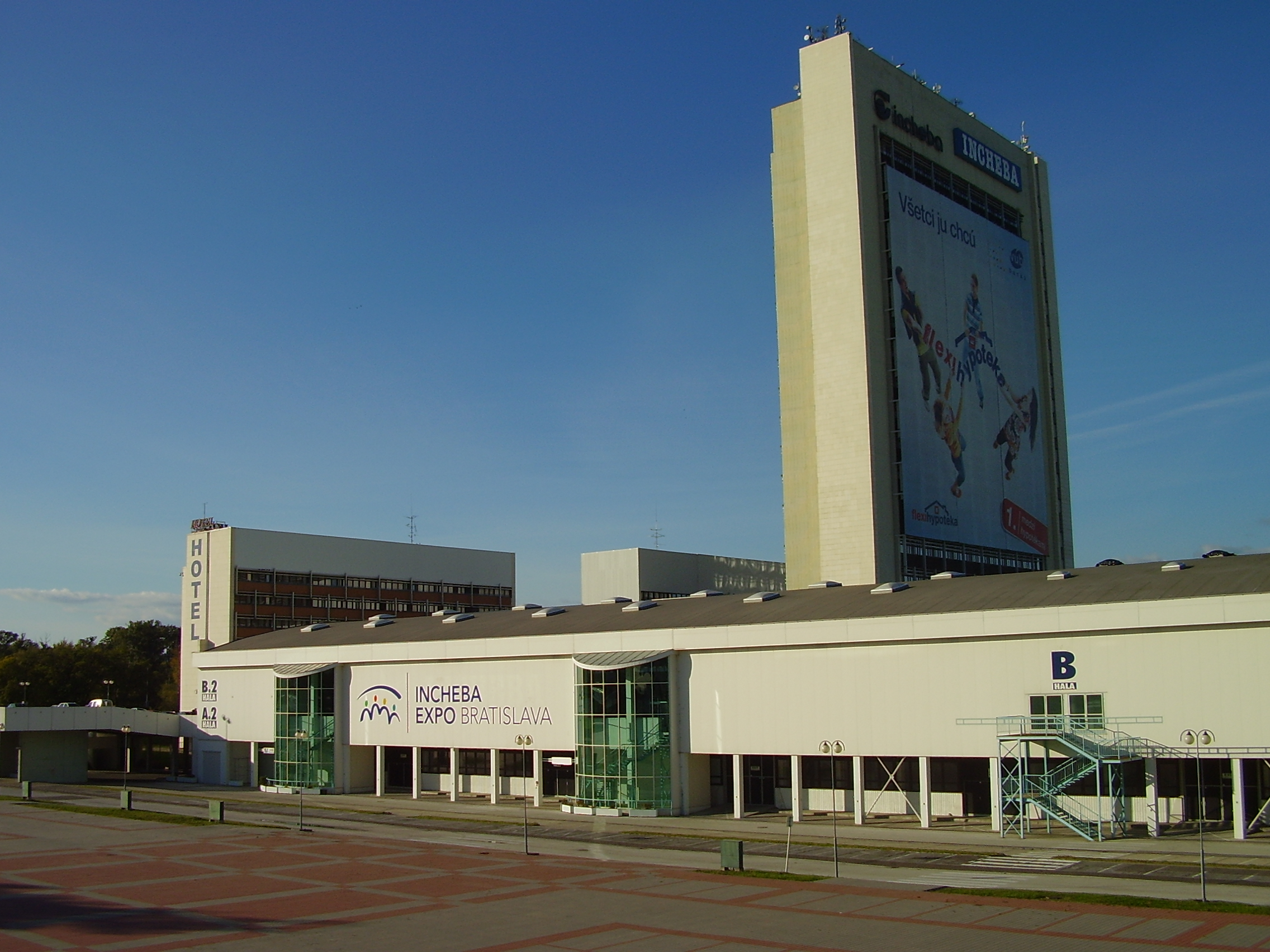 Incheba Expo building in Bratislava , Slovakia